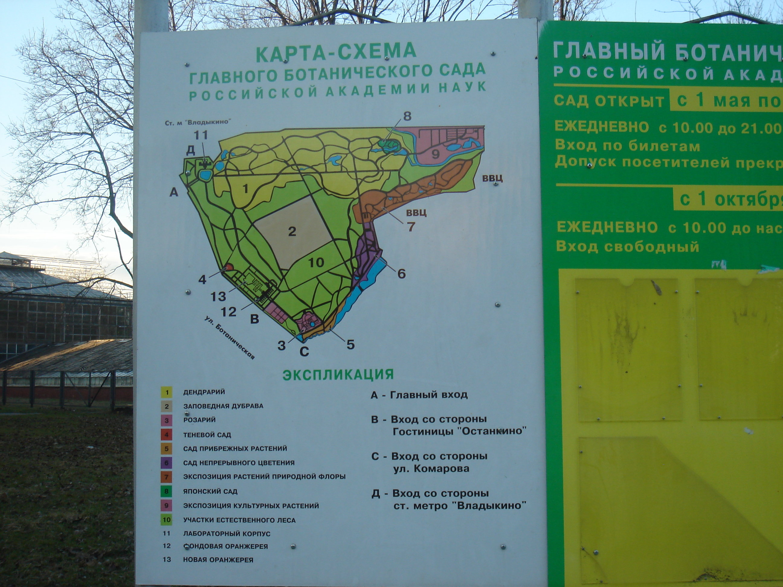 The plan of the Moscow Botanical garden